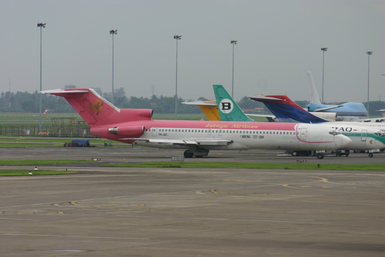 At Jakarta Soekarno-Hatta